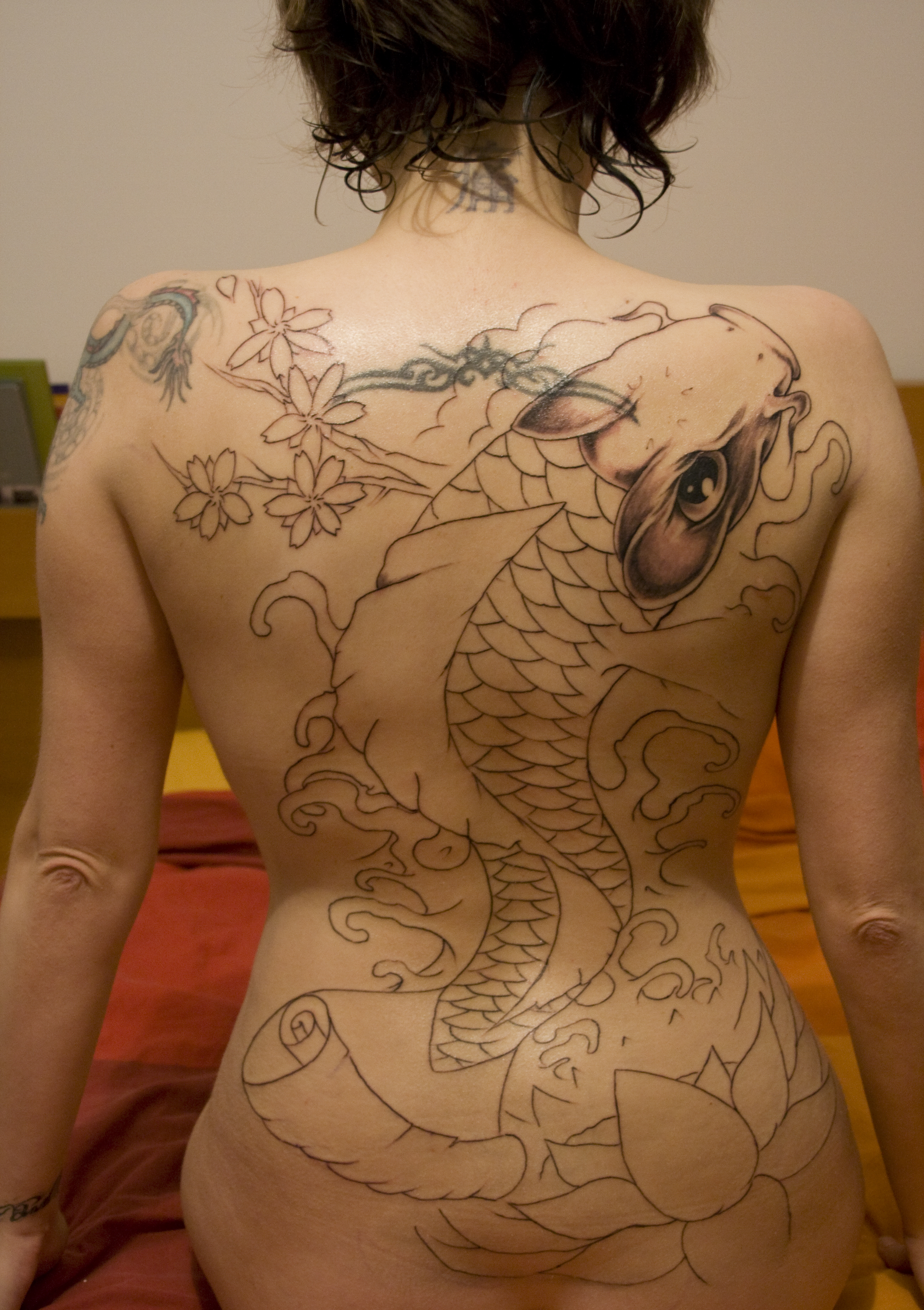 Here we are! Today i made the first session for my new tattoo. I really love it! Made by Christophe, Bazic Tatouages, France